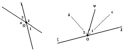 Vertical and supplementary angles